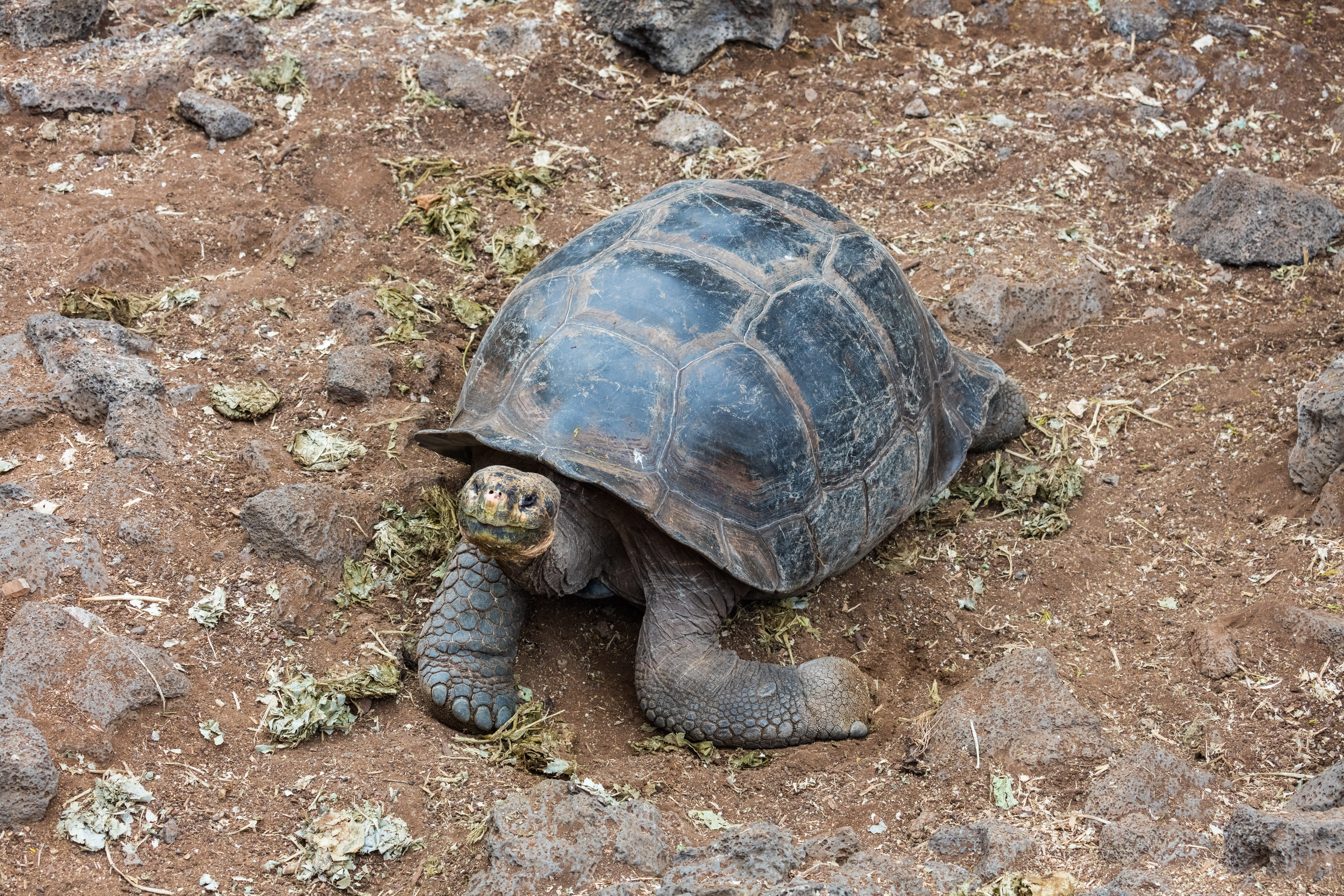 San Cristobal Island Galapagos tortoise (Chelonoidis chathamensis), Santa Cruz Island, Galapagos Islands, Ecuador